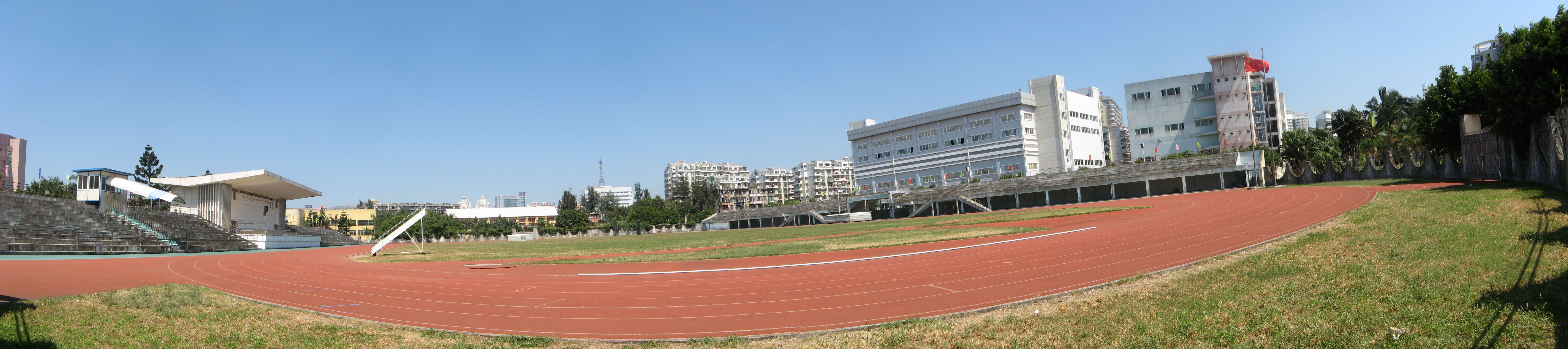 Fuzhou People's Stadium, the former Foochow Horse Racing Ground